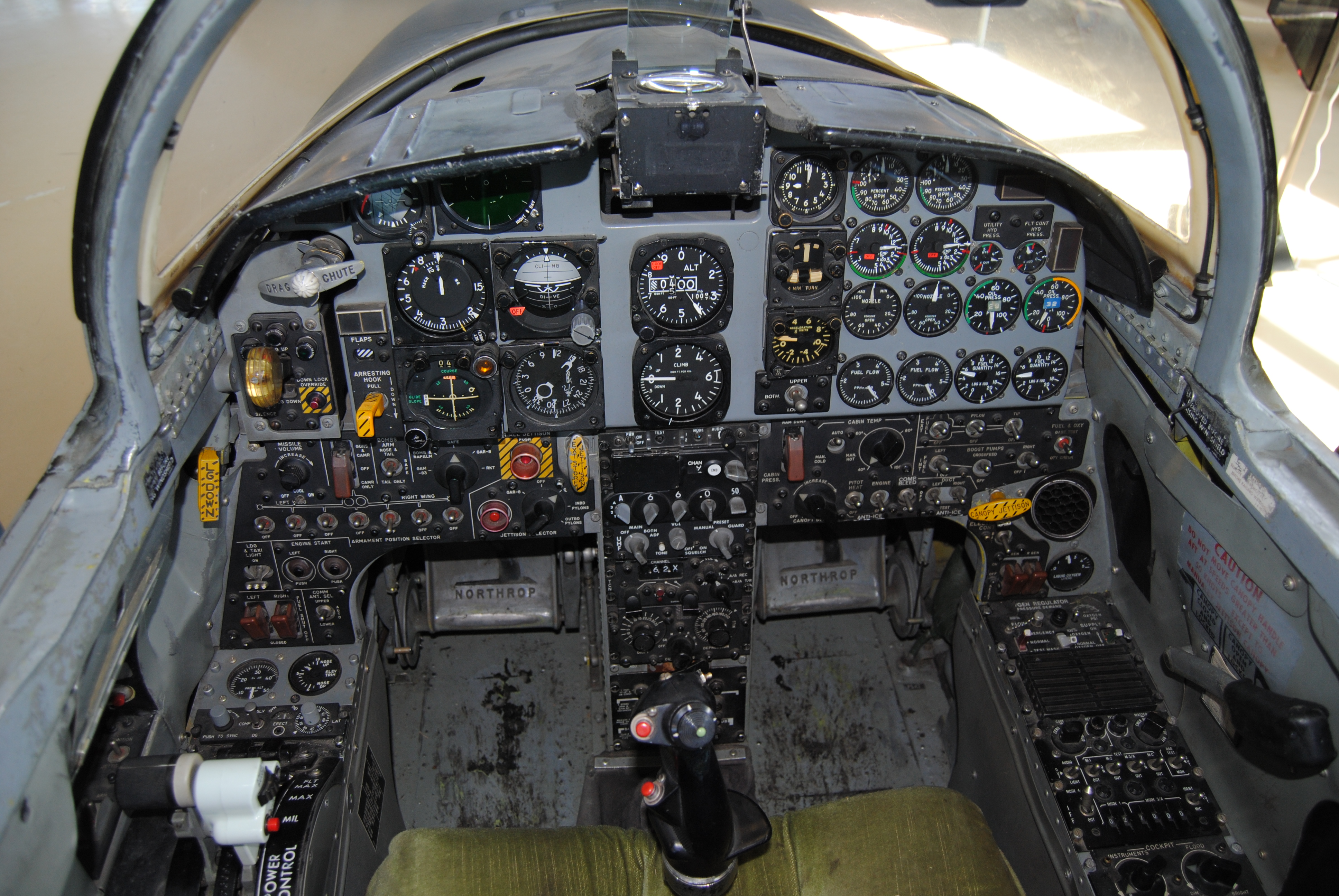 Northrop F-5A(G) Freedom Fighter flight deck displayed in the Norwegian Armed Forces Aircraft Collection. Serial no. 208 (66-9208)